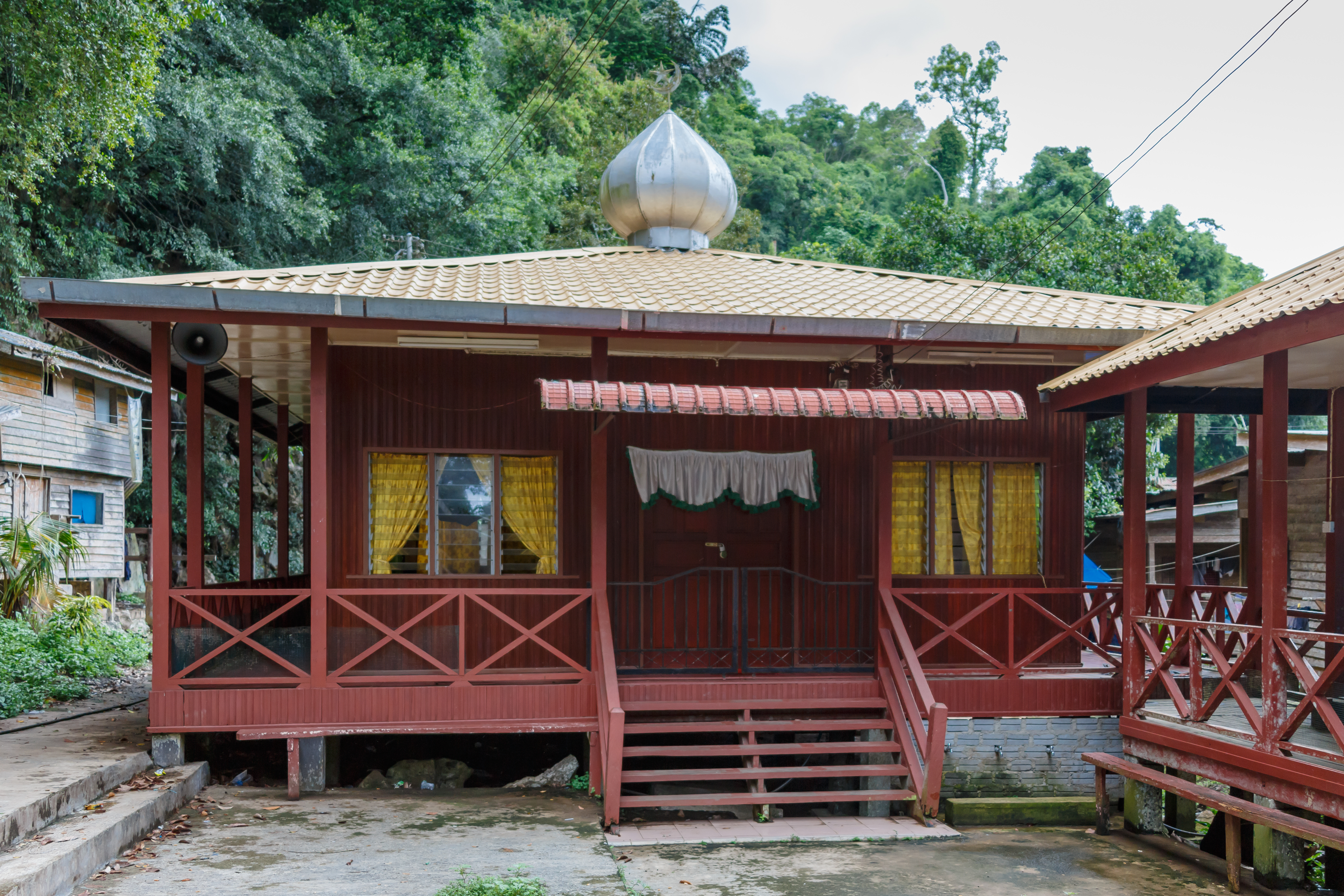 Kg Madai, Sabah: Surau of Kg Madai, an Idahan village that is renowned for its cave and the harvesting of swiftlets bird nests)